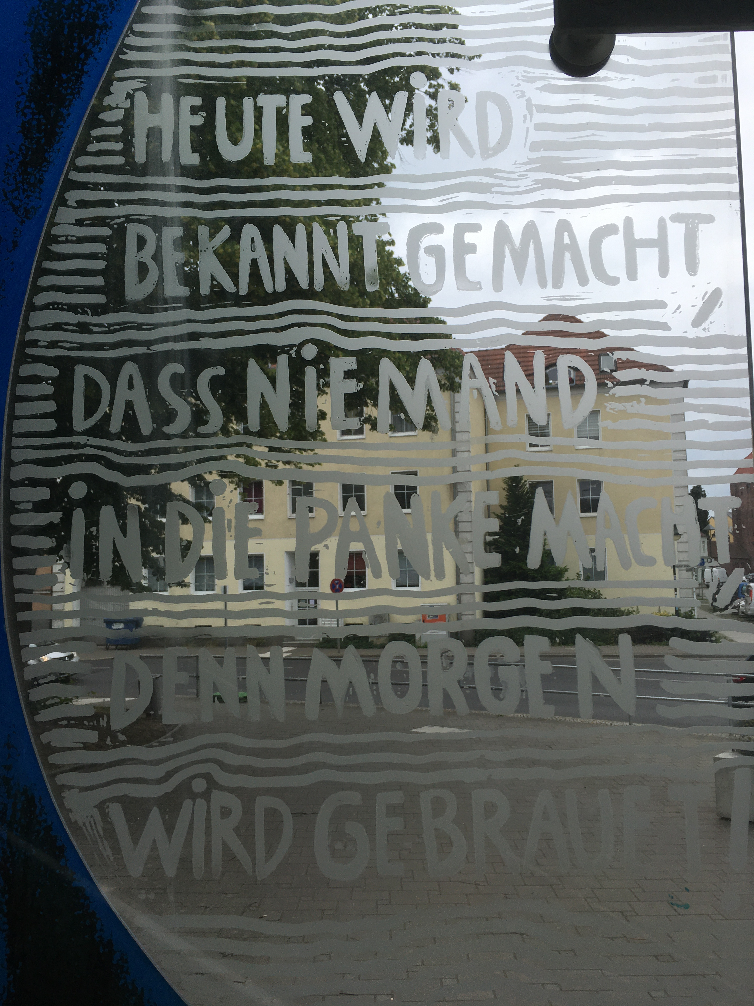 Heute wird bekannt gemacht / daß niemand in die Panke macht / Denn morgen wird gebrauet!